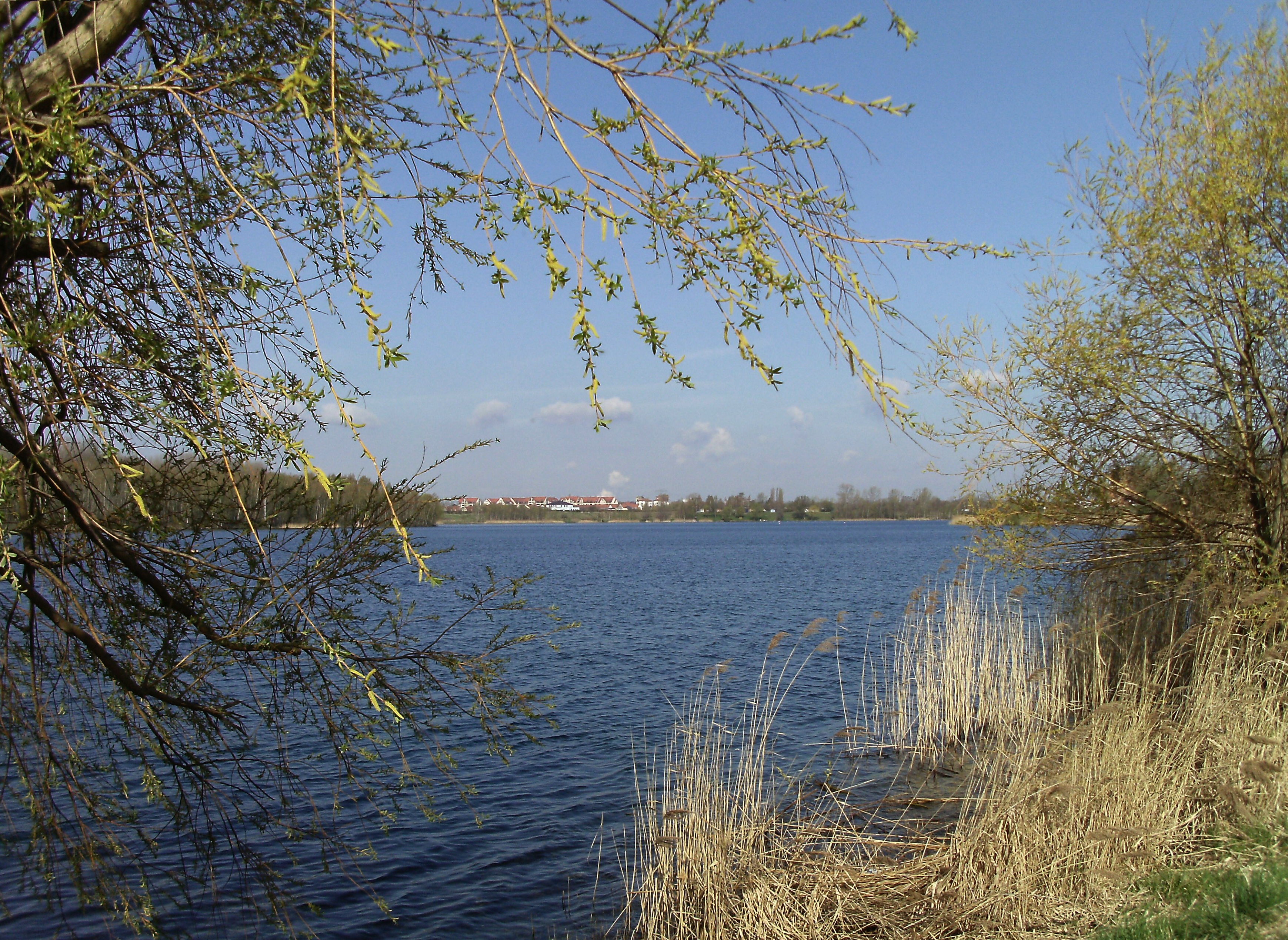 View over Kulkwitz Lake from Lausen (Leipzig) to Markranstädt (Leipzig district, Saxony)